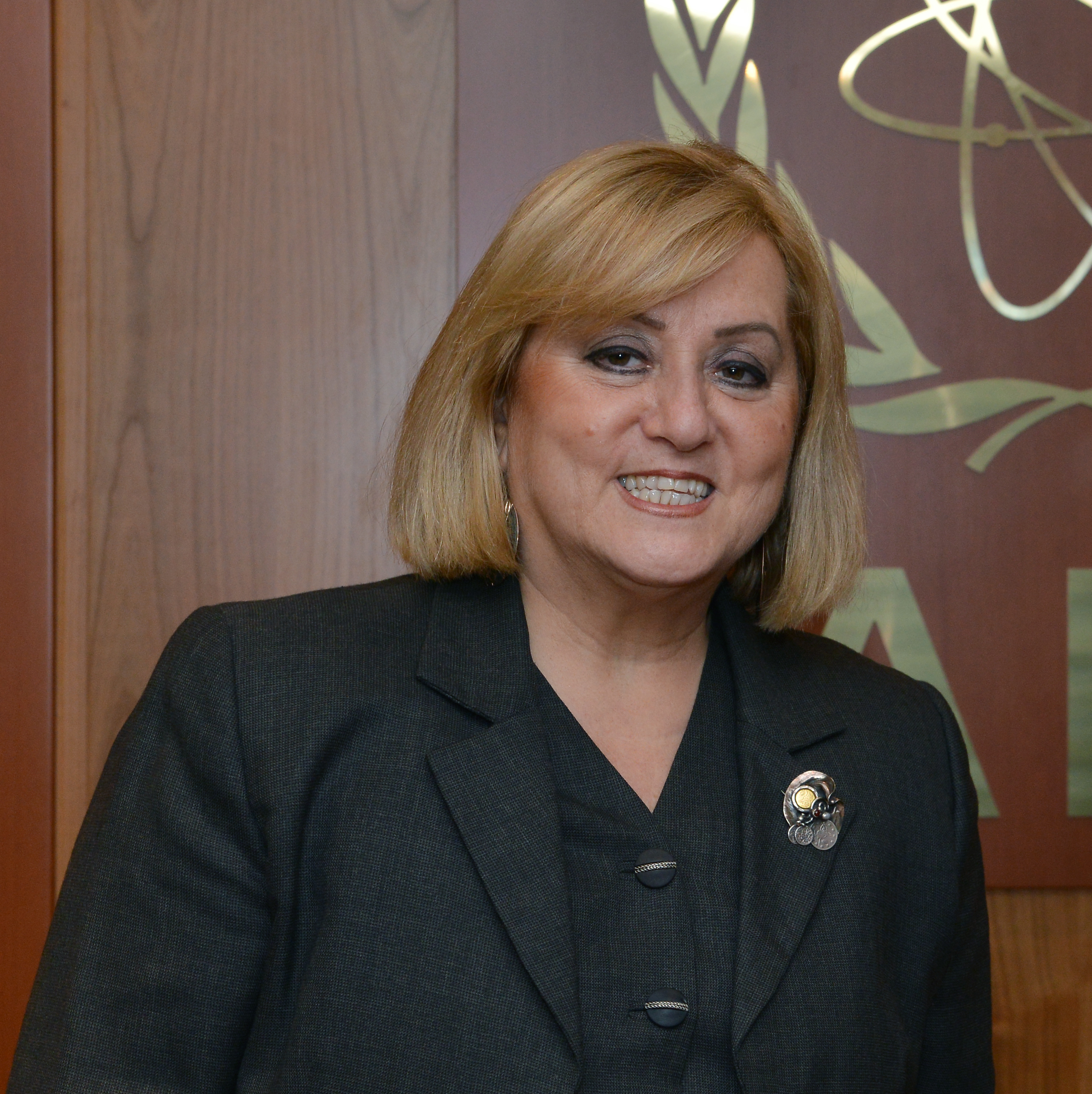 Presentation of credentials by the new Resident Representative of Turkey, HE Ms Emine Birnur Fertekligil to IAEA Director General Yukiya Amano. IAEA, Vienna, Austria, 22 November 2013. Photo Credit: Dean Calma / IAEA